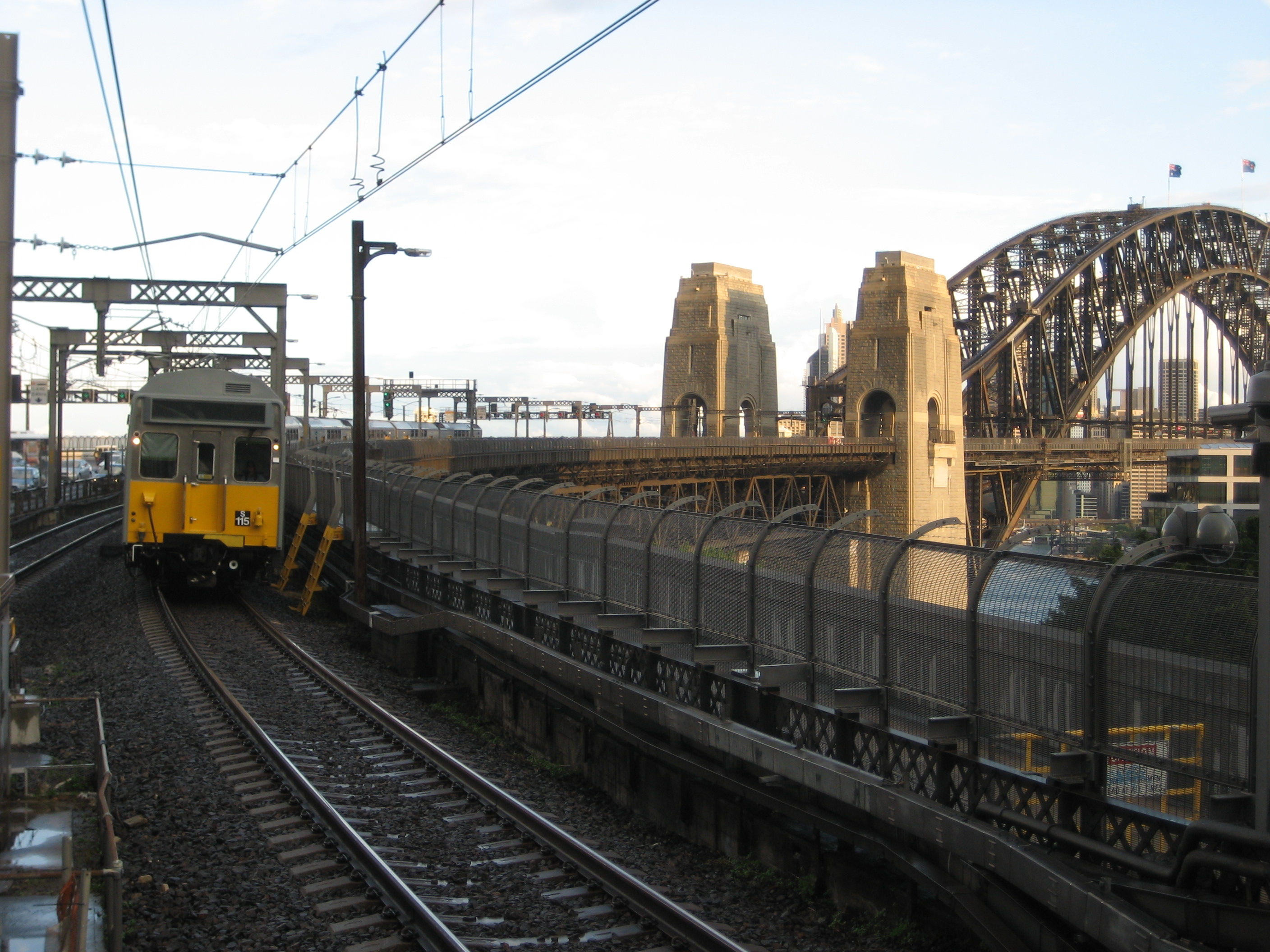 A Cityrail train approaches the Milsons Point station after crossing the Sydney Harbour Bridge. The bridge, opened in 1932, carries six lanes of car traffic, two tracks for Cityrail trains and has pedestrian and cyclist paths on both sides of the structure.